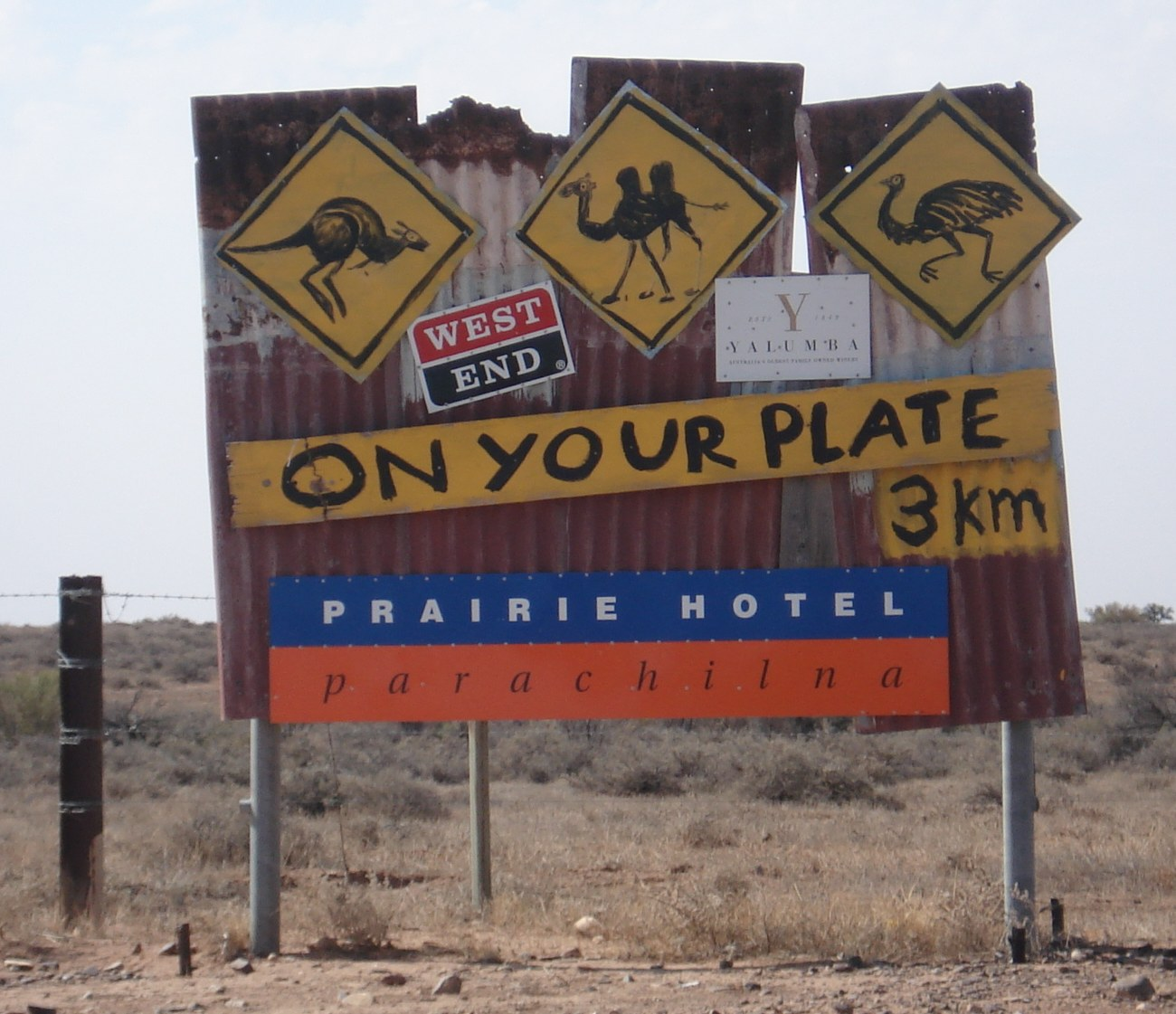 I have taken this pic